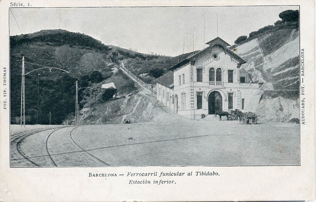 The lower station of the Funicular del Tibidabo. The tracks of the connecting Tramvia Blau can be seen in the left foreground. From a postcard by Pau Audouard.